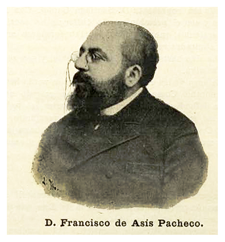 foto del biografiado